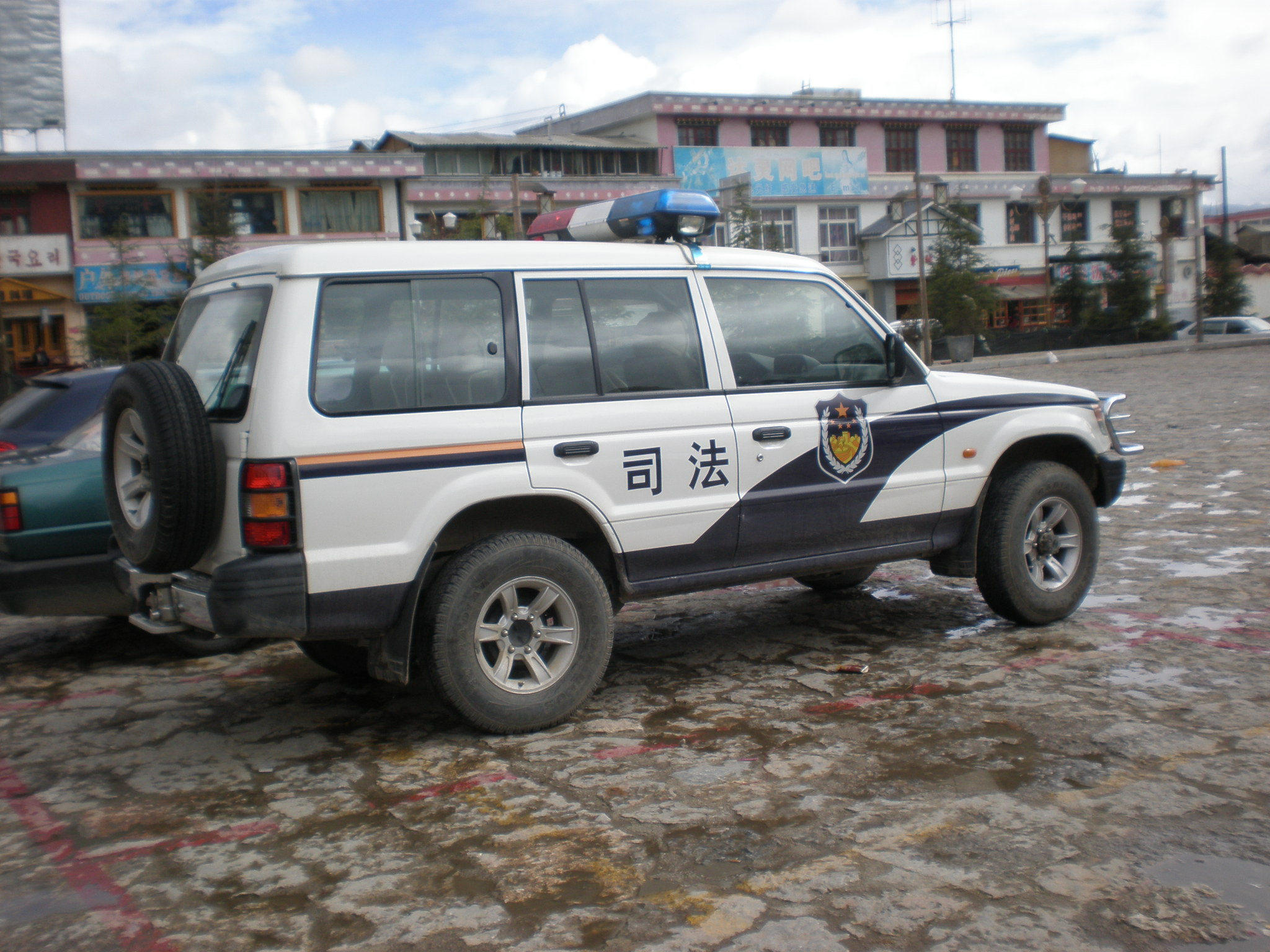 A police SUV in the parking lot of the Old Town of Shangri-La, Yunnan.